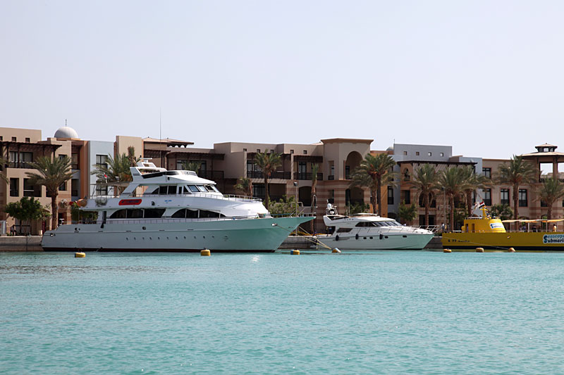 Marina in Port Ghalib